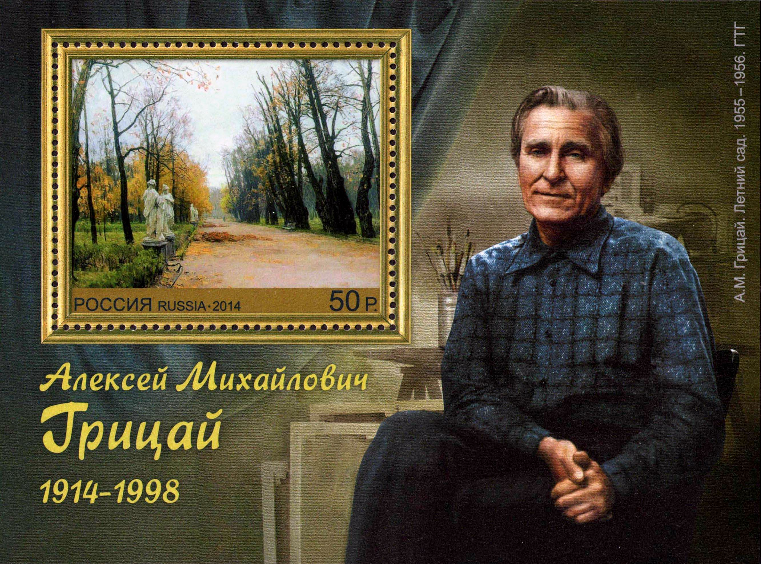 100th birth anniversary of the Soviet painter Aleksey Gritsay (1914–1998).The souvenir sheet of Russia, 1 stamp×50.00 Rubles, 7 March 2014, PTC Marka Catalogue No 1809. Coated paper. Offset printing. Perforation: frame 12×12½. The size of the souvenir sheet: 113×84 mm. The size of the stamp: 50×42 mm. Print run: 75,000.The Summer Garden by Aleksey Gritsay. 1955–1956. Oil on canvas. 60×77 cm. Tretyakov Gallery.The margins of the souvenir sheet: the portrait of Aleksey Gritsay.